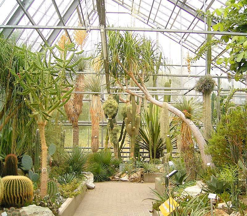 Desert green house, Bothanical Garden Bochum, Germany